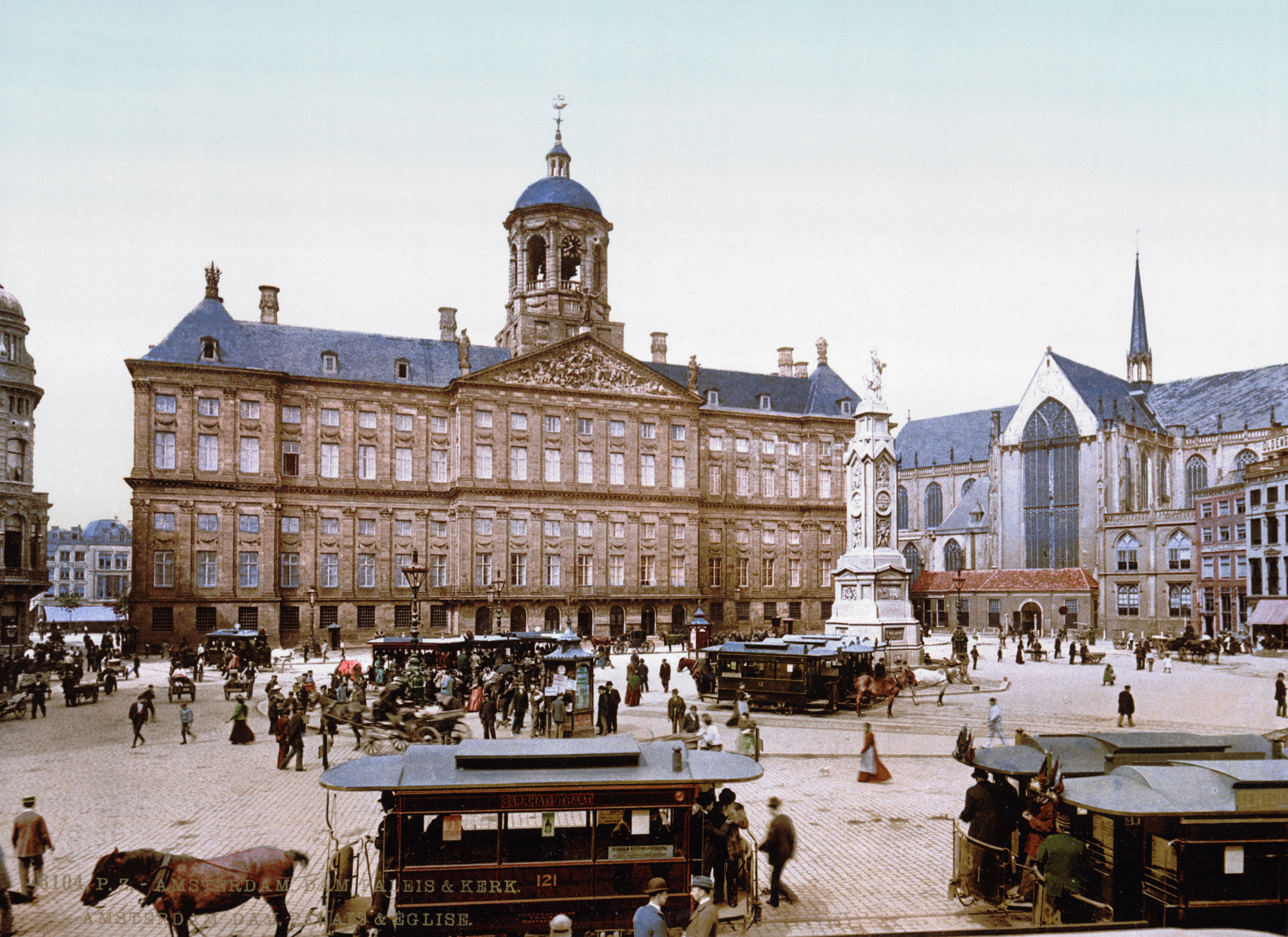 Palace on the Dam, between 1890 and 1900